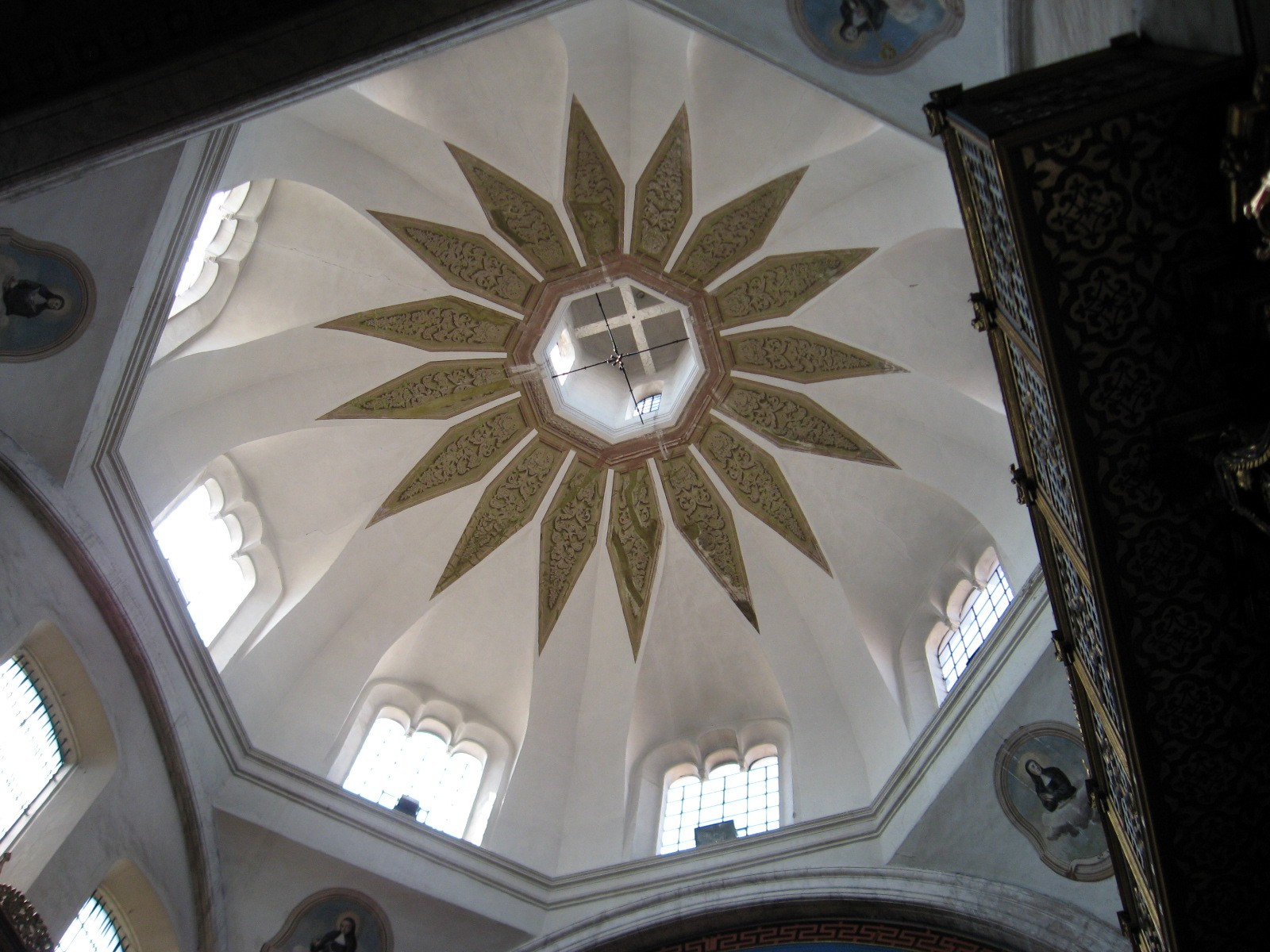 Vault of the dome of the La Enseñanza Church on Donceles Street in the historic center of Mexico City.